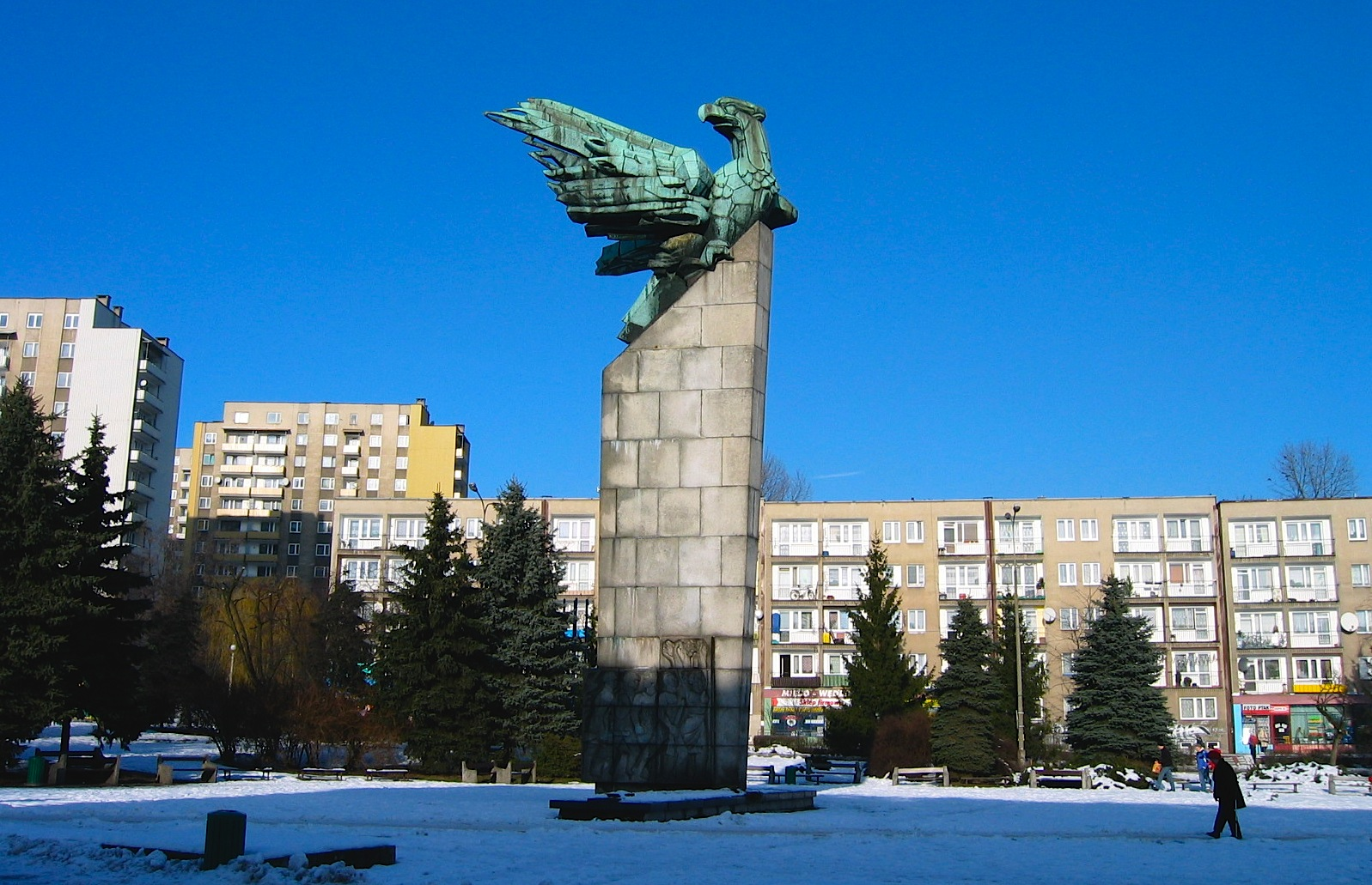 The Victory and Liberty Monument in Chrzanów.